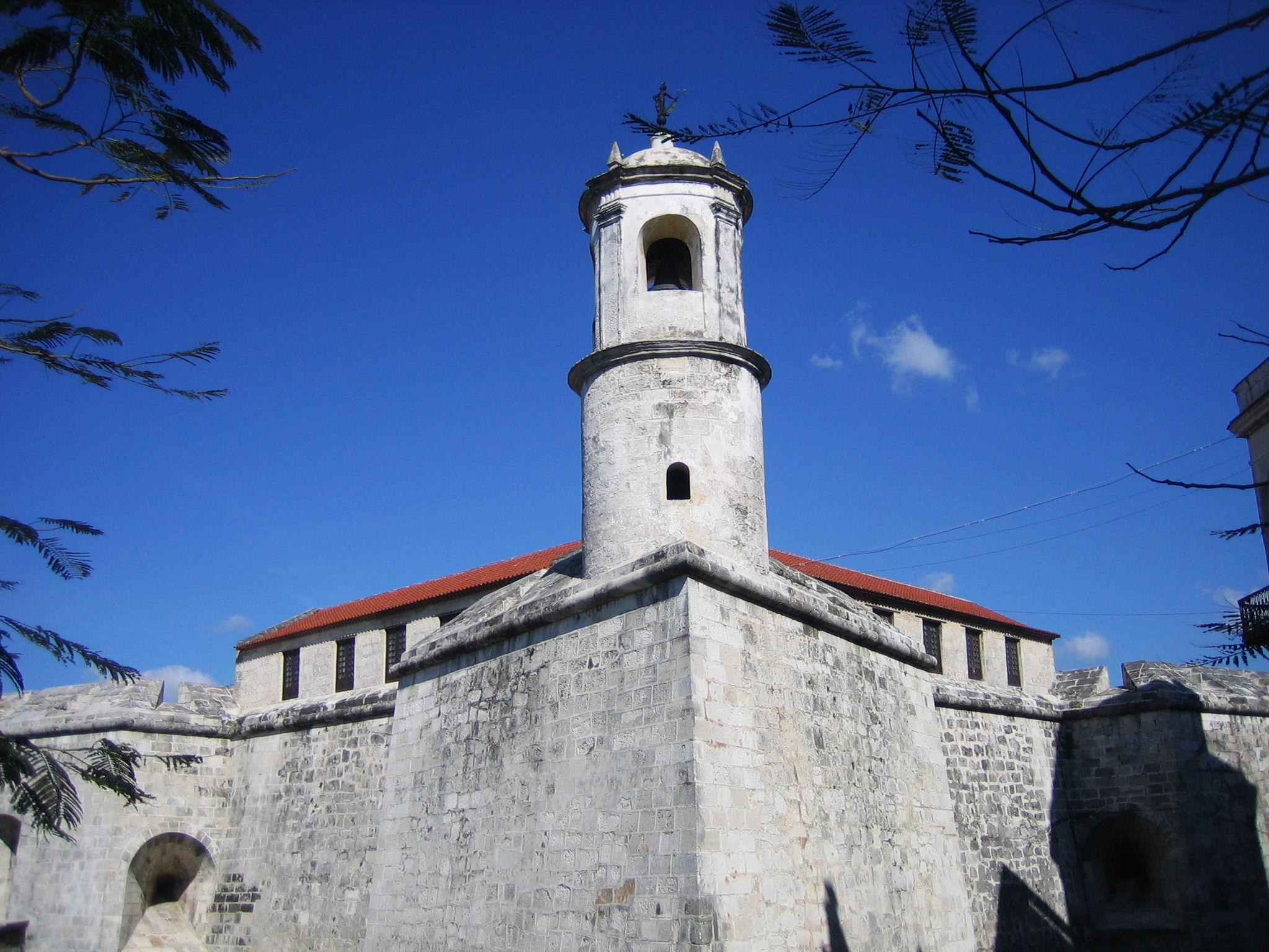 Castillo de la Real Fuerza as seen from the backside, featuring the watchtower and La Giradilla. Photo taken on February 23 2007 by Alex van Poppelen.